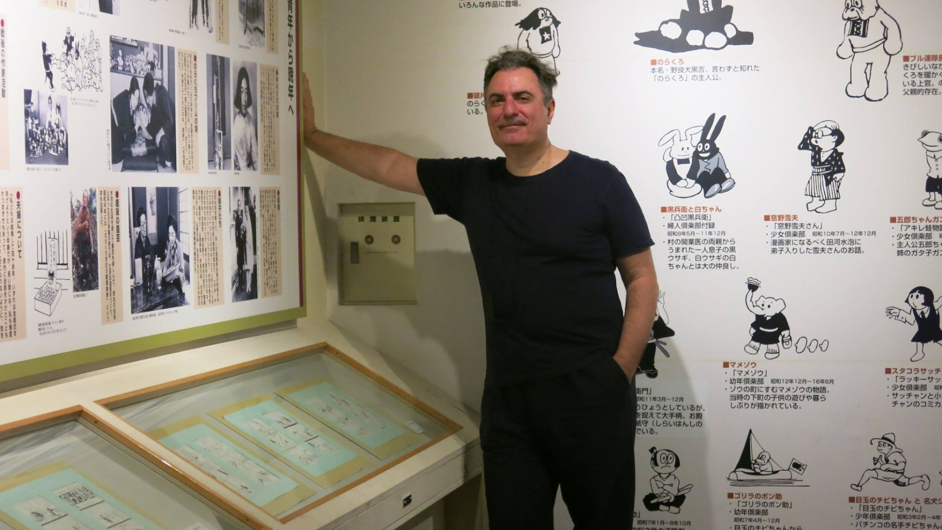 Igort in Tagawa Museum, Tokyo 2017